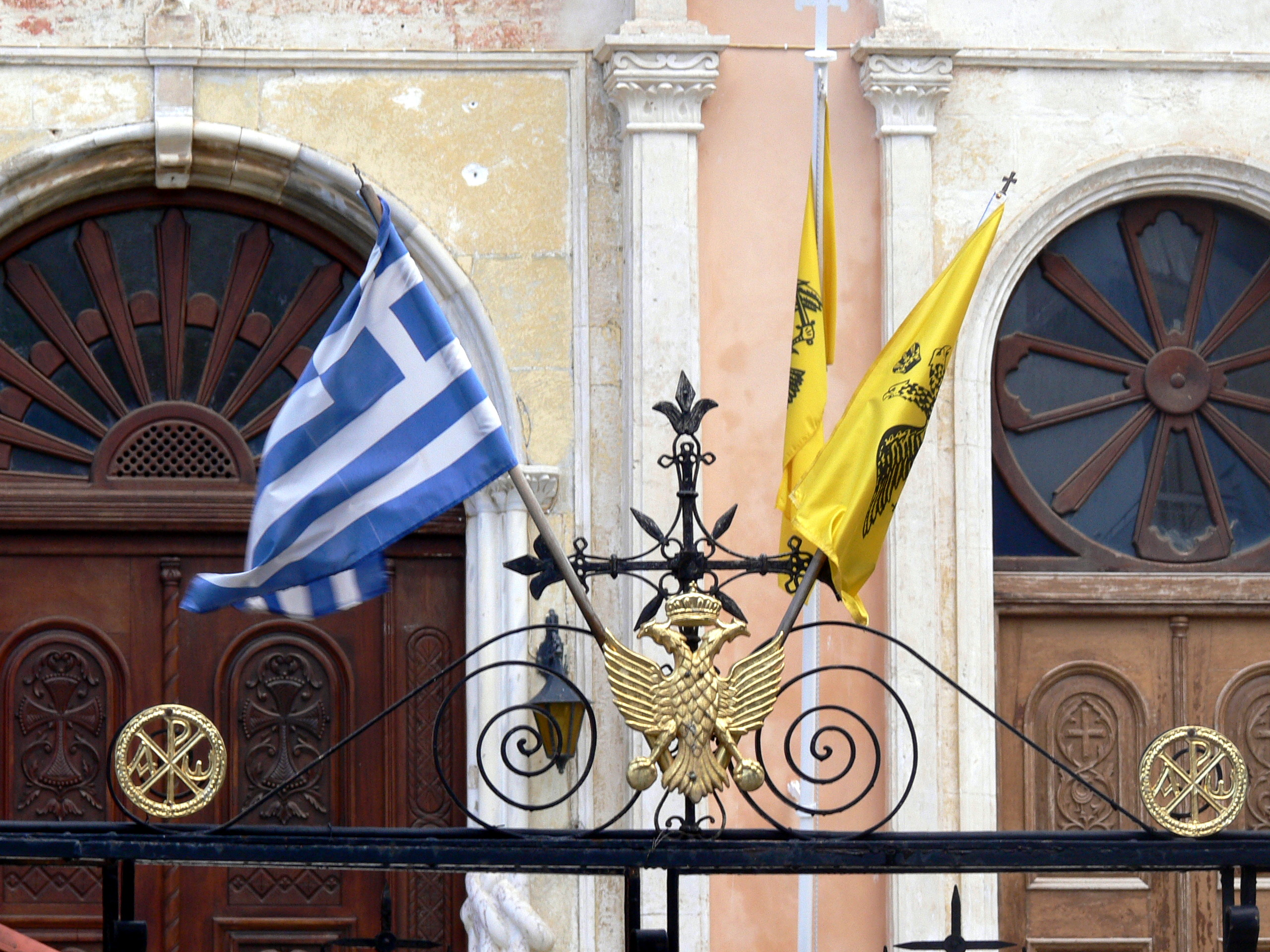 Chania ( Crete ). Greek and byzantine flags at the gate of Agios Nikolaos church.